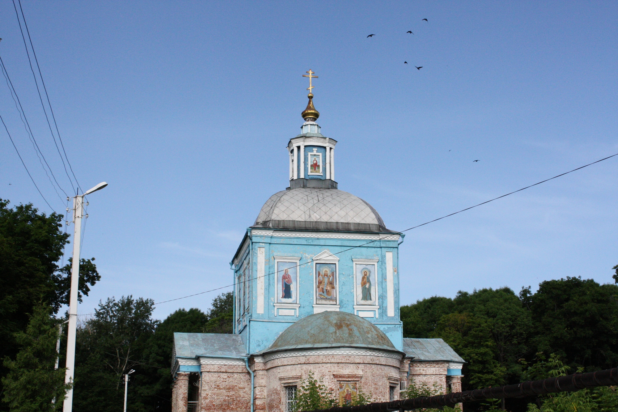 Church in Praise of Icon "Joy of All Who Mourn"